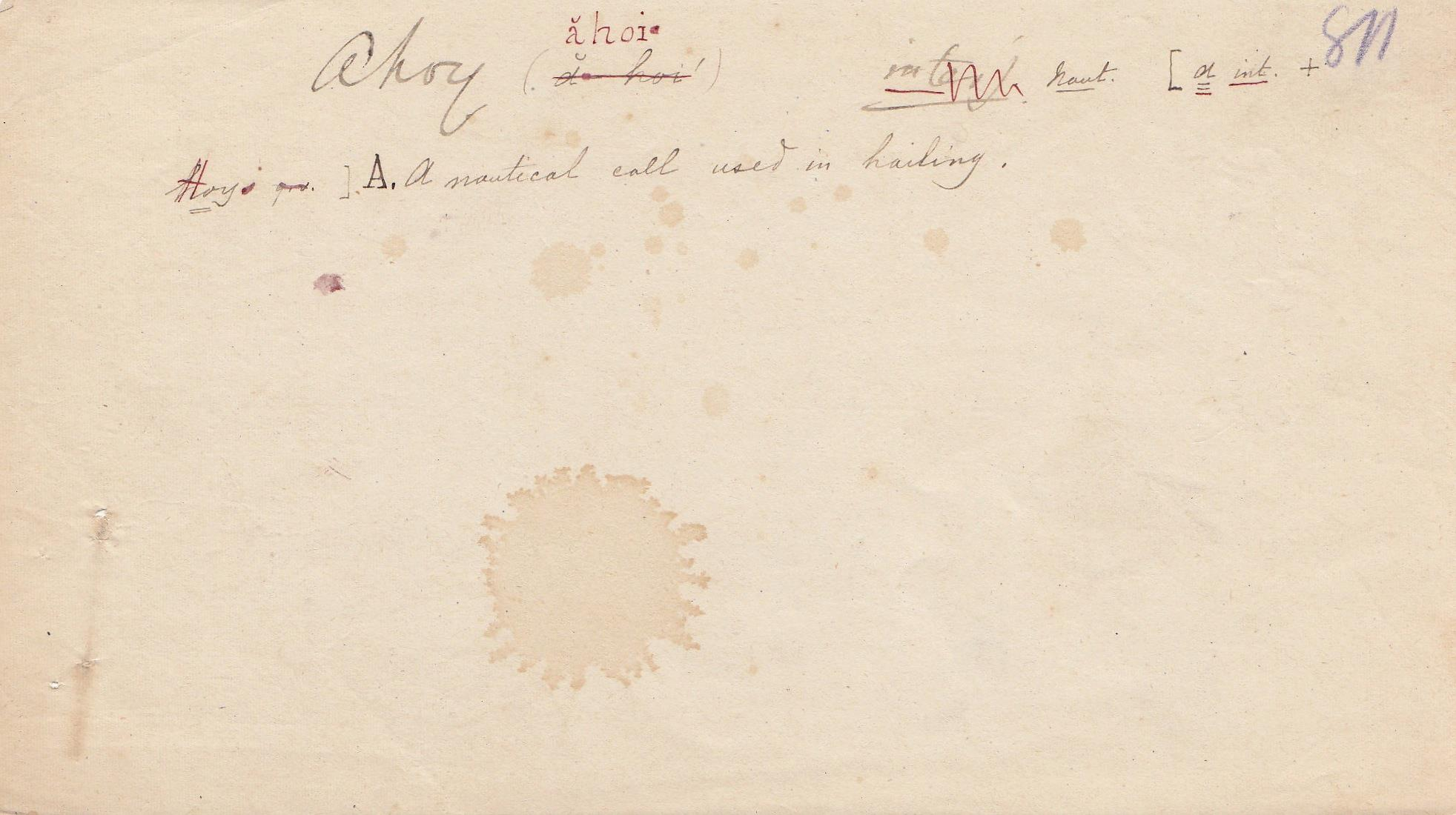 Clip for the entry "ahoy" in the Oxford English Dictionary, Archives of Oxford University Press, Oxford, UK, compiled before 1884.